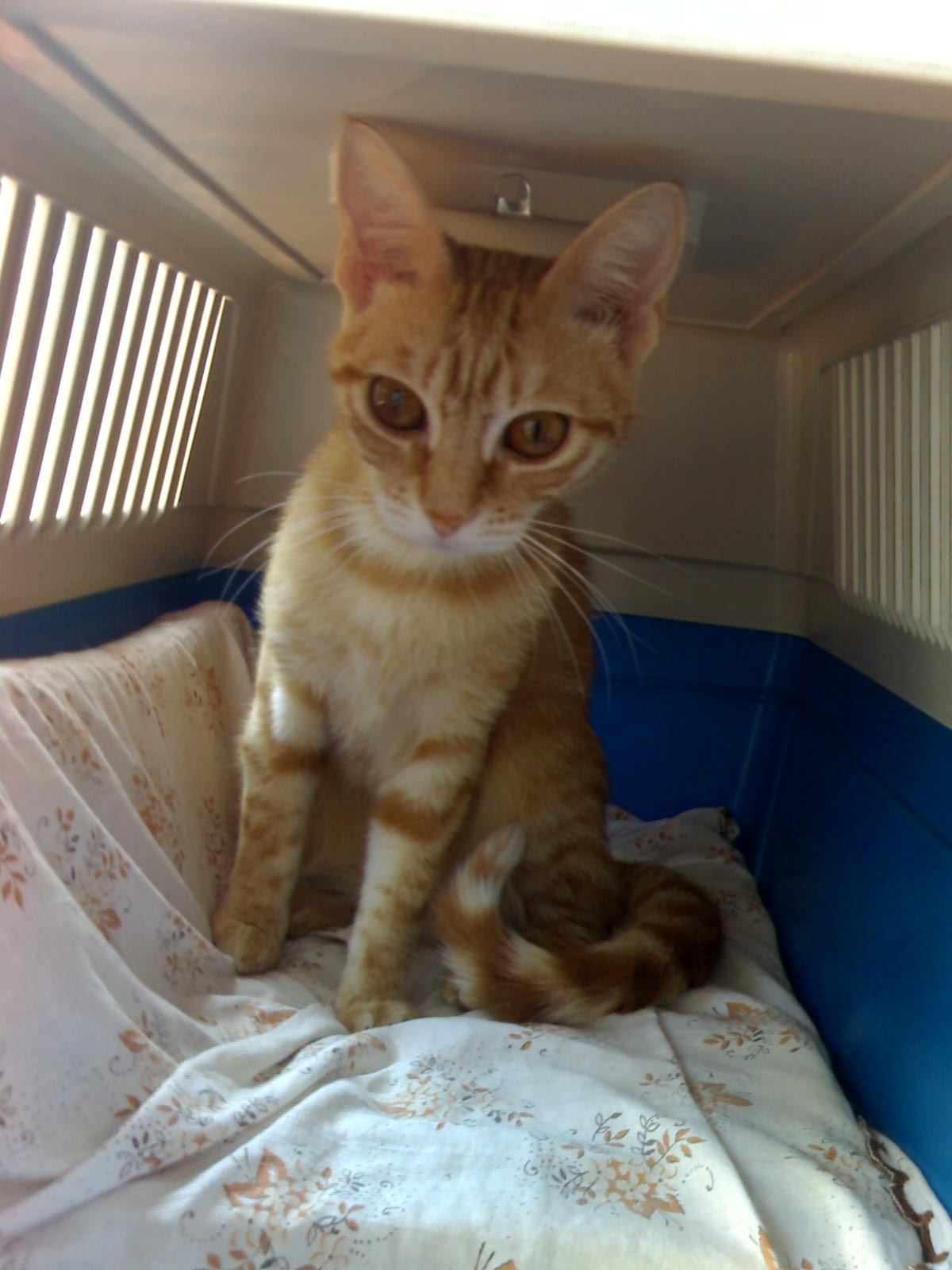 Cat.